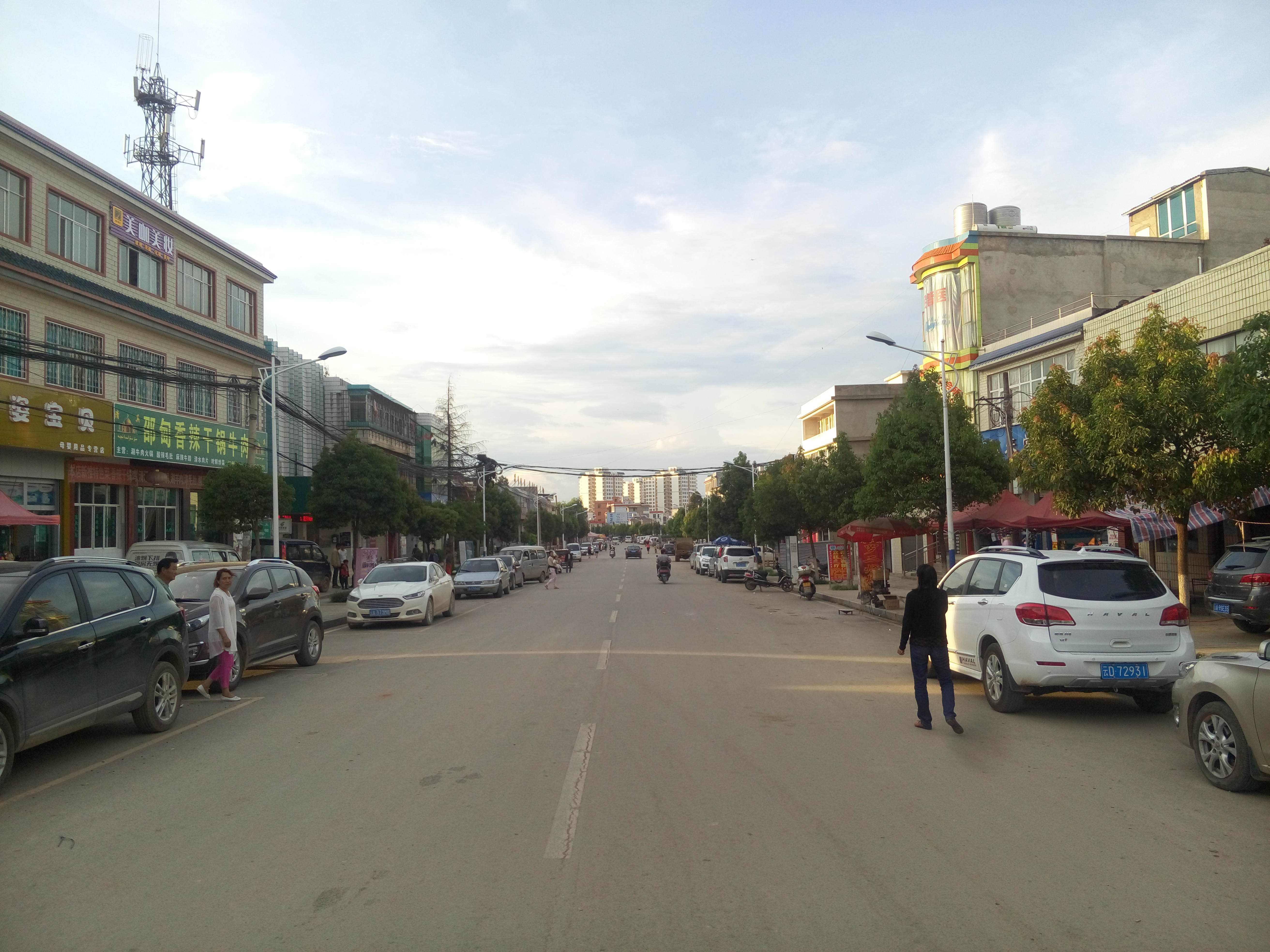 Main road(Lanmao Road) in Yanglin Town, Songming County